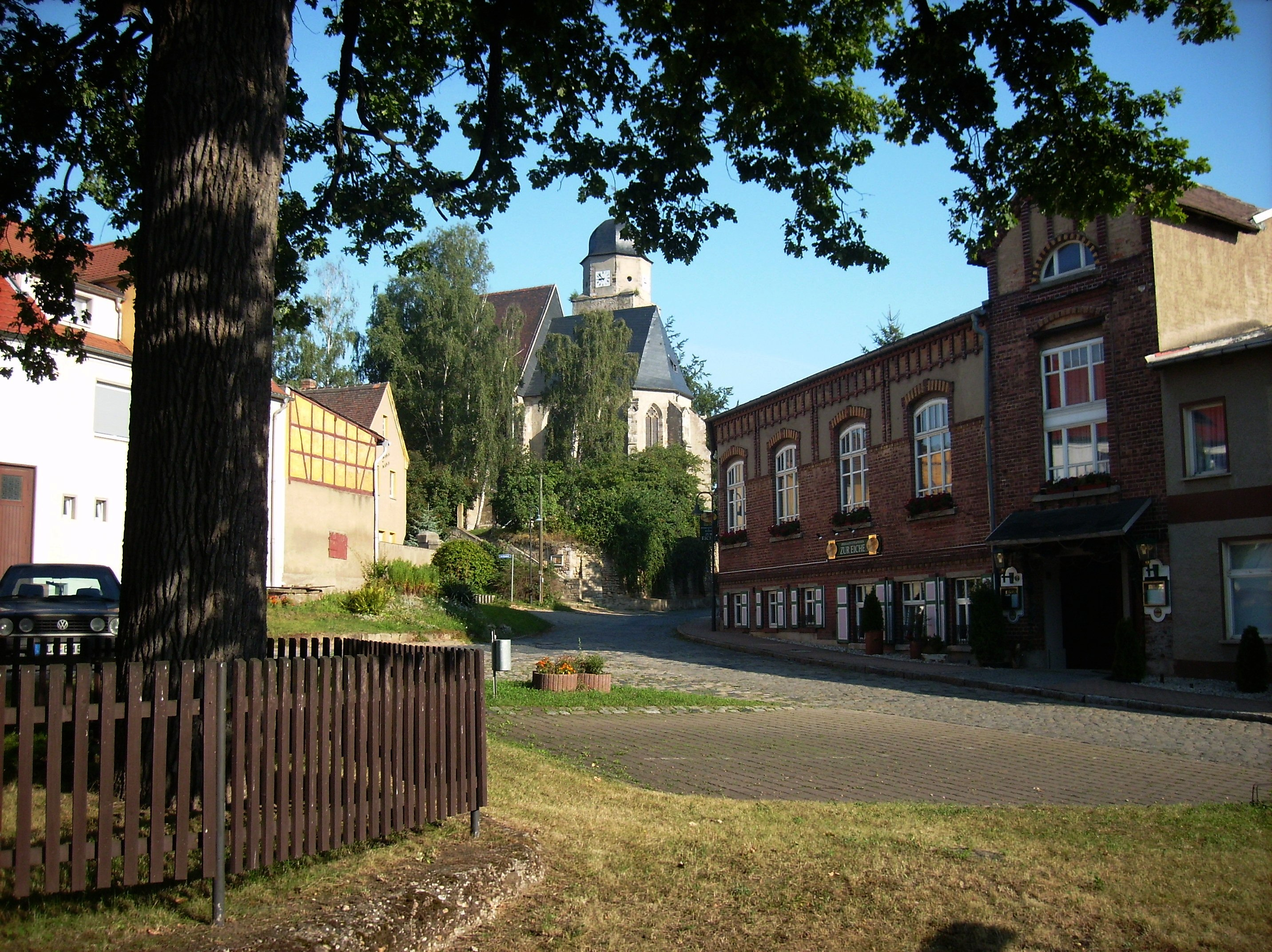 Market square in Profen (Elsteraue, district of Burgenlandkreis, Saxony-Anhalt) with the church in the background